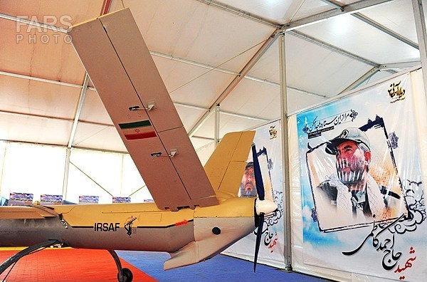 Iranian Shahed 129 UCAV tail (first generation) at an IRGC-ASF arms expo.